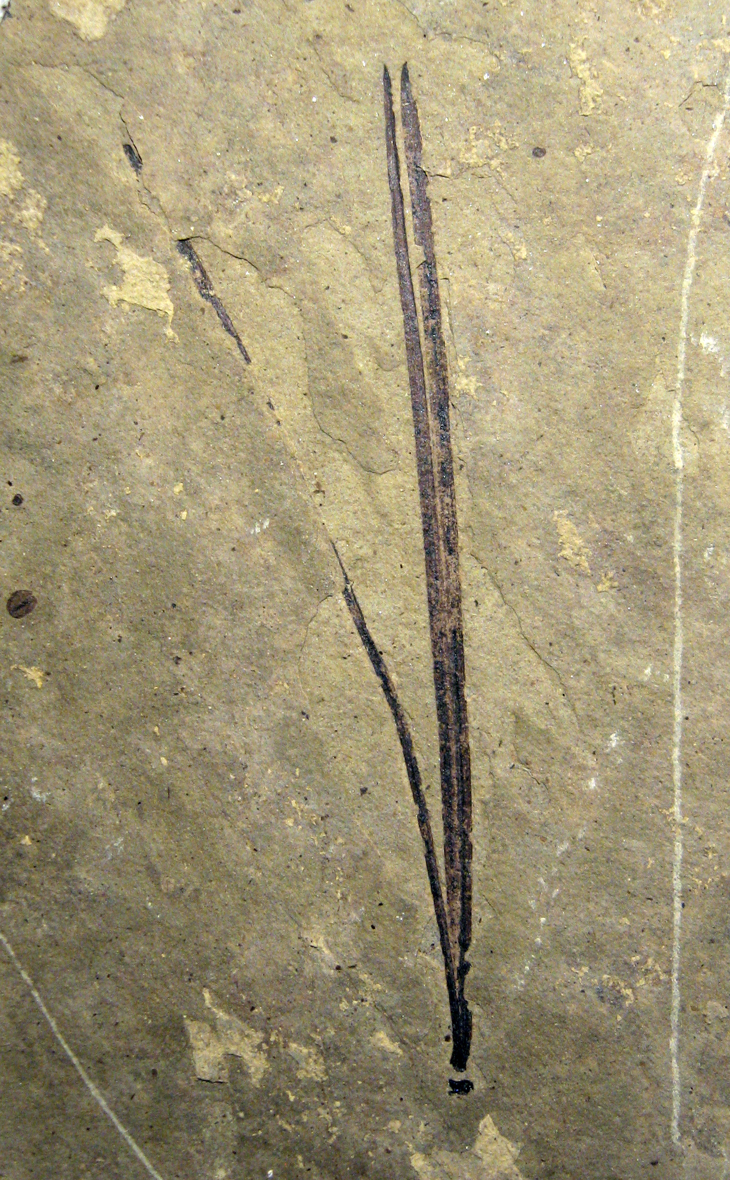 A 4.3cm tall needle group from an extinct 3 needled species of "Pinus macrophylla" (Berry), 1929. ~49.5 million years old. Early Ypresian, Klondike Mountain Formation, Republic, Ferry County, Washington, USA. Stonerose Interpretive Center specimen.